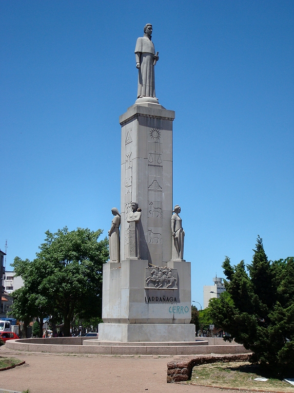 Monument to Dámaso Antonio Larrañaga, Montevideo, Uruguay.